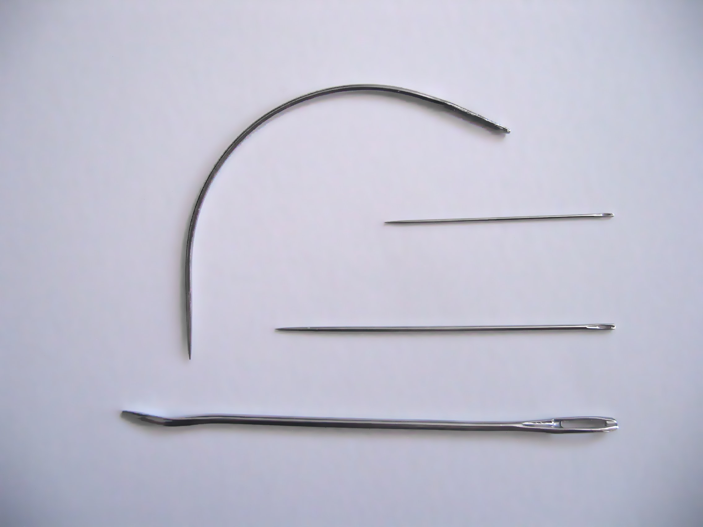 Sewing needles of different sizes and shapes.